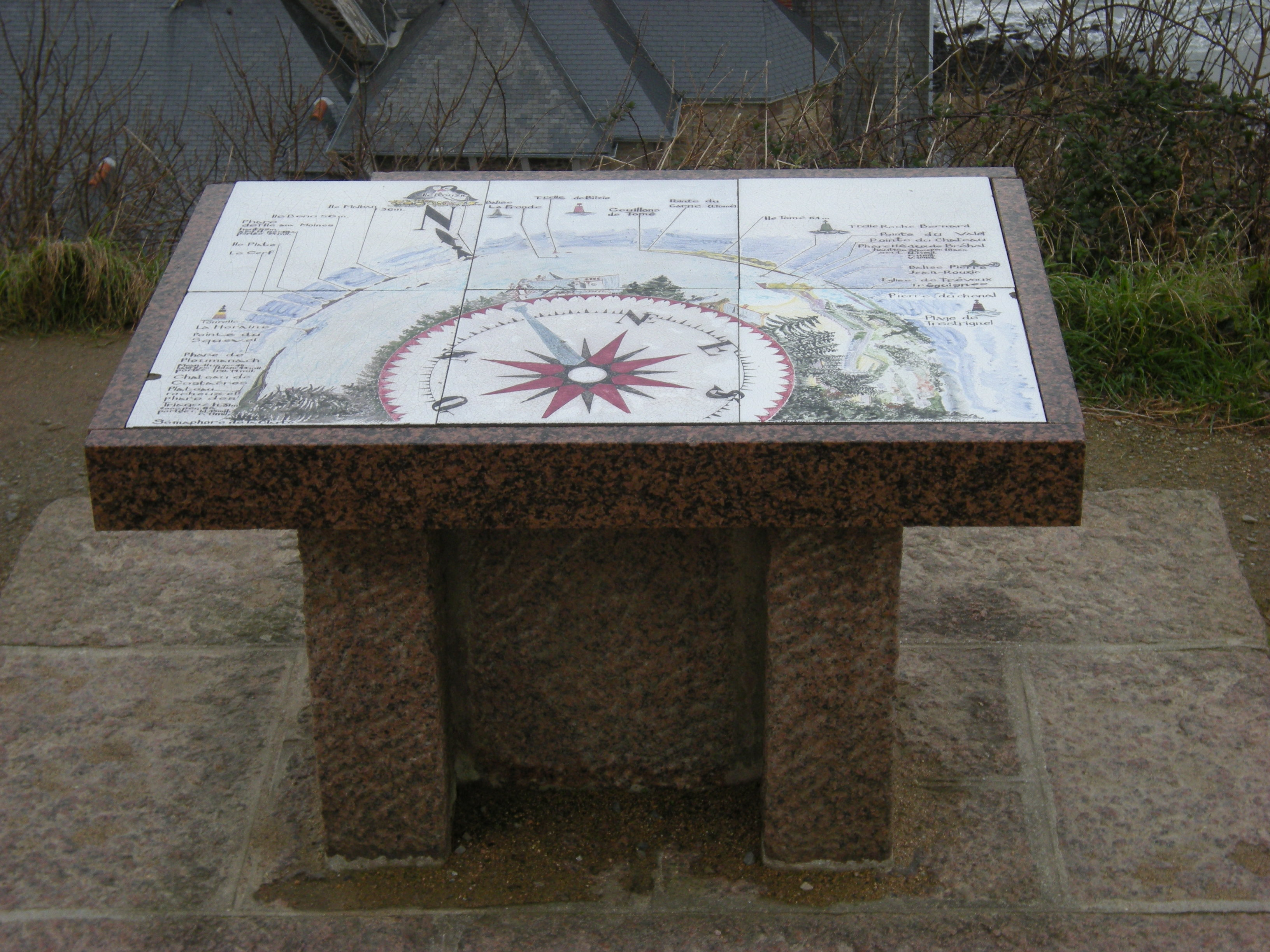 Orientation table, Perros-Guirec, Côtes-d'Armor, Bretagne, France